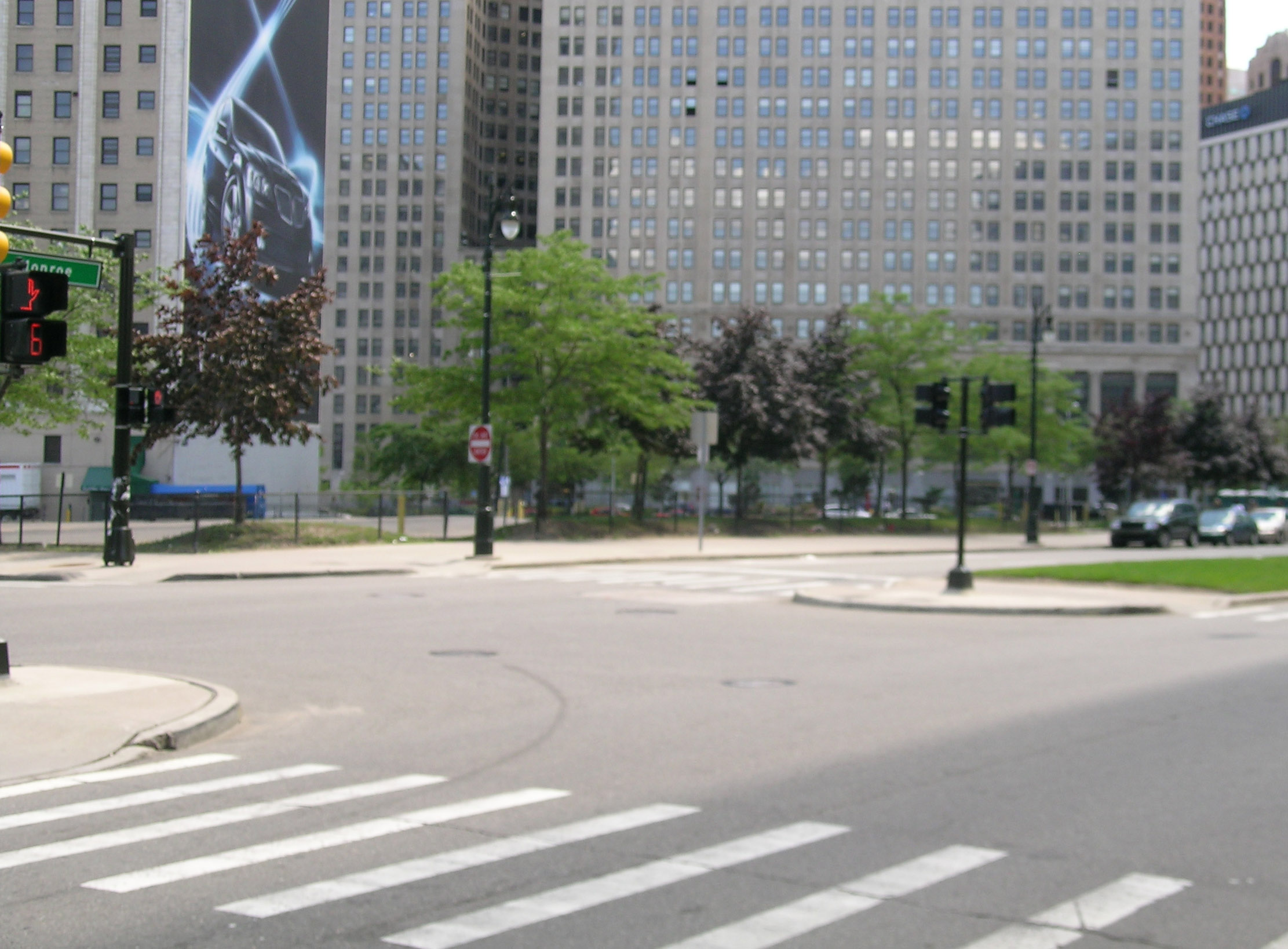 Empty block on Monroe at Woodward, Detroit MI